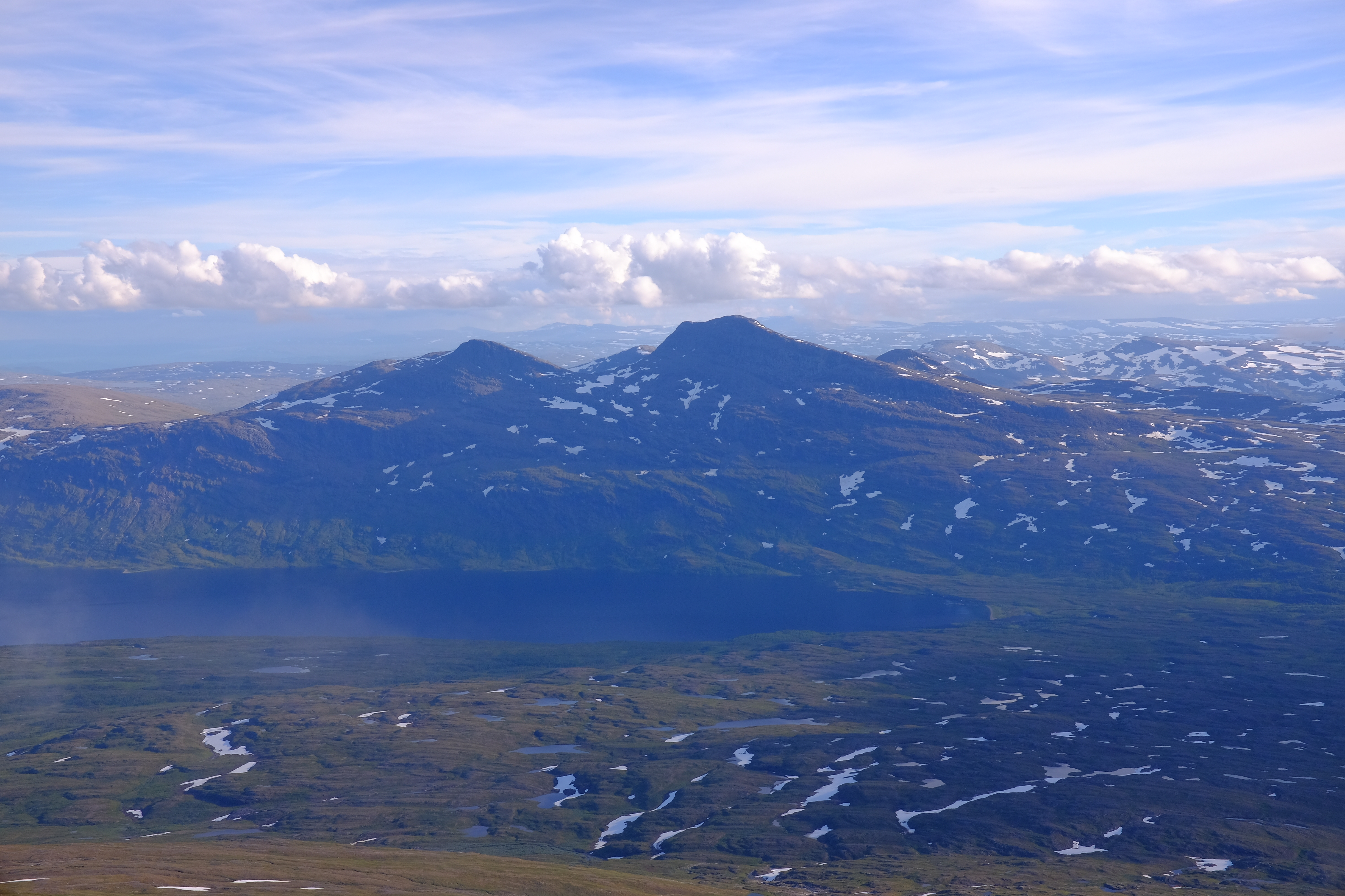 Årjep Sávllo is a mountain near the Norwegian border in Arjeplog municipality in Swedish Lapland.